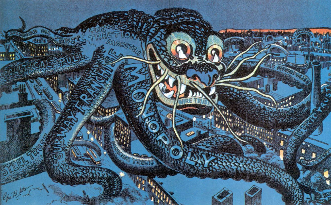 Cartoon, "The Menace of the Hour." The menace illustrated is the "Traction Monster" (i.e., the new electric subway system in New York City), depicted as an octopus.